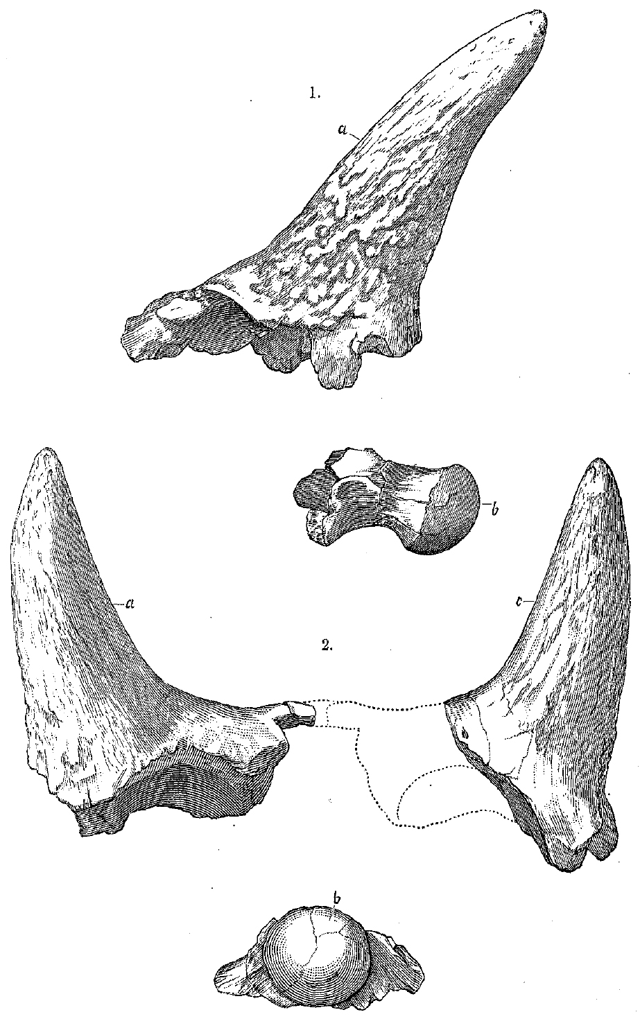 Ceratops montanus holotype